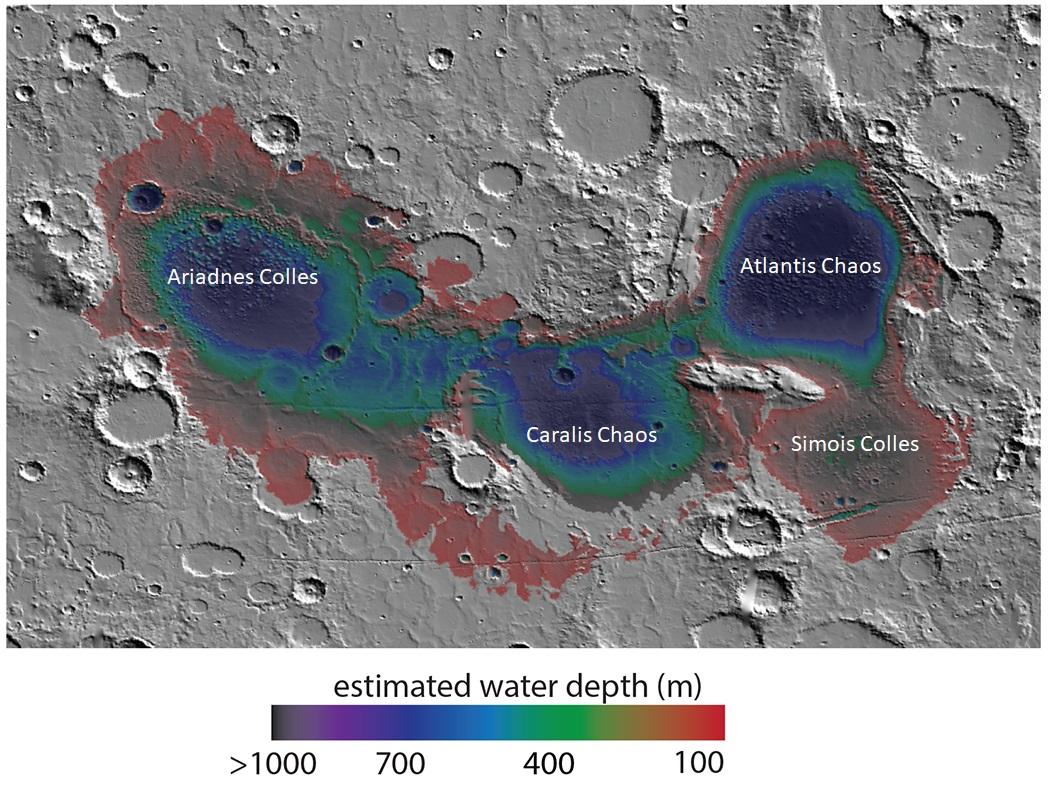 Features near Eridania basin with labels